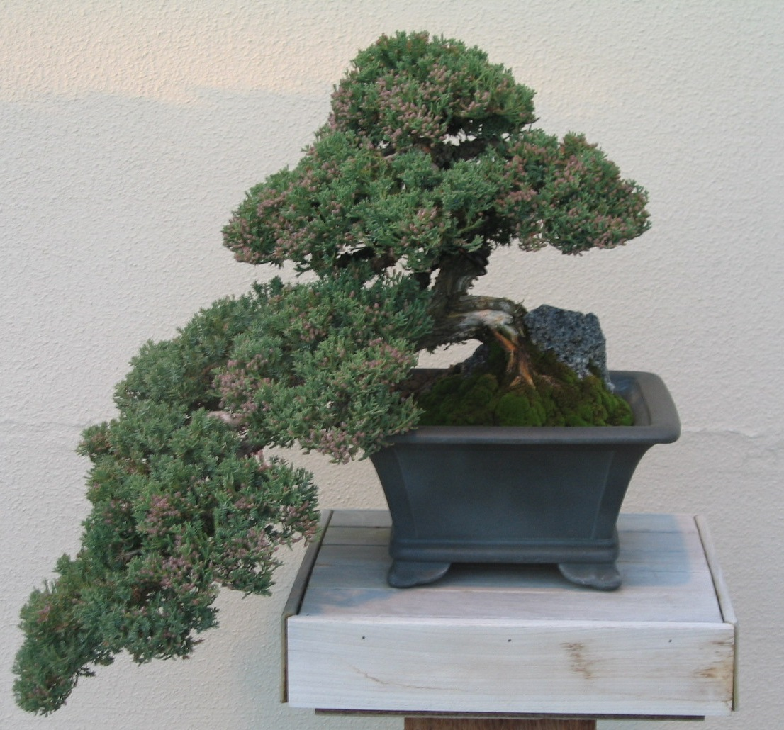 Bonsai specimen of Juniperus procumbens 'Nana' at Longwood Gardens Originally uploaded to wikipedia as Image:Juniperus procumbens.jpg by User:Rydia